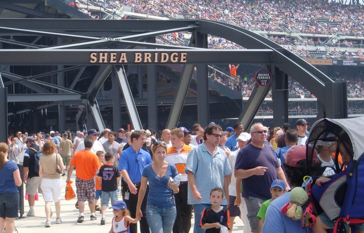 Shea Bridge, located in the New York Mets stadium Citi Field in Queens, New York. The bridge, located beyond right field is named in honor of Shea Stadium, the previous home of the Mets.